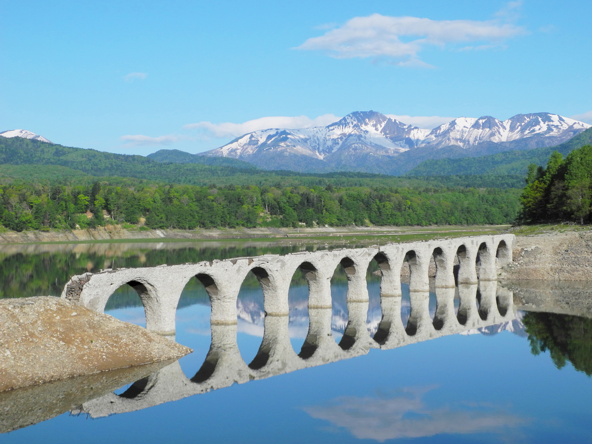 Taushubetsu Bridge with Mount Nipesotsu in Hokkaido, Japan.